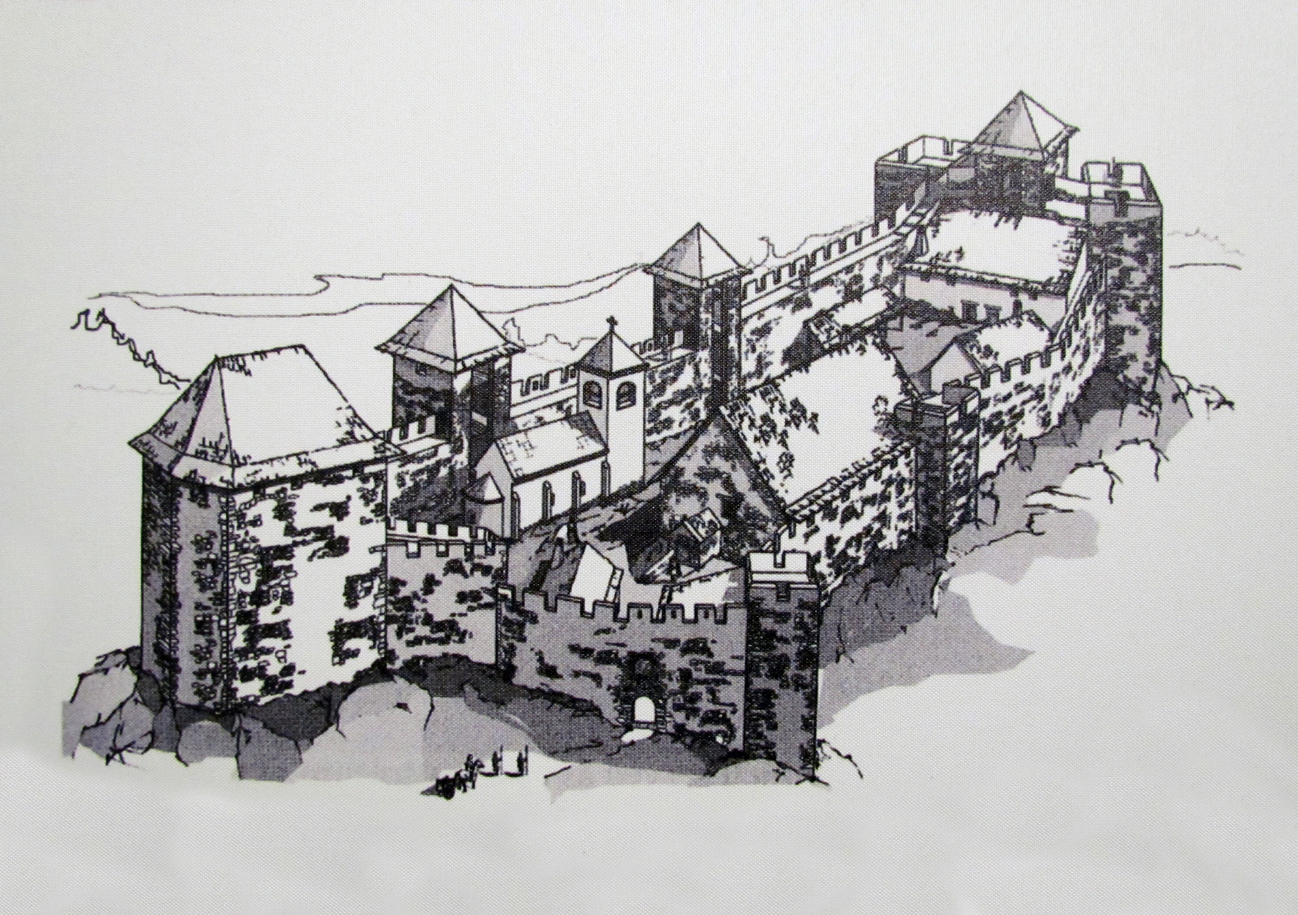 Maglič castle, hypothetical apperance of early 14th c. (according to Marko Popović), National Museum of Serbia